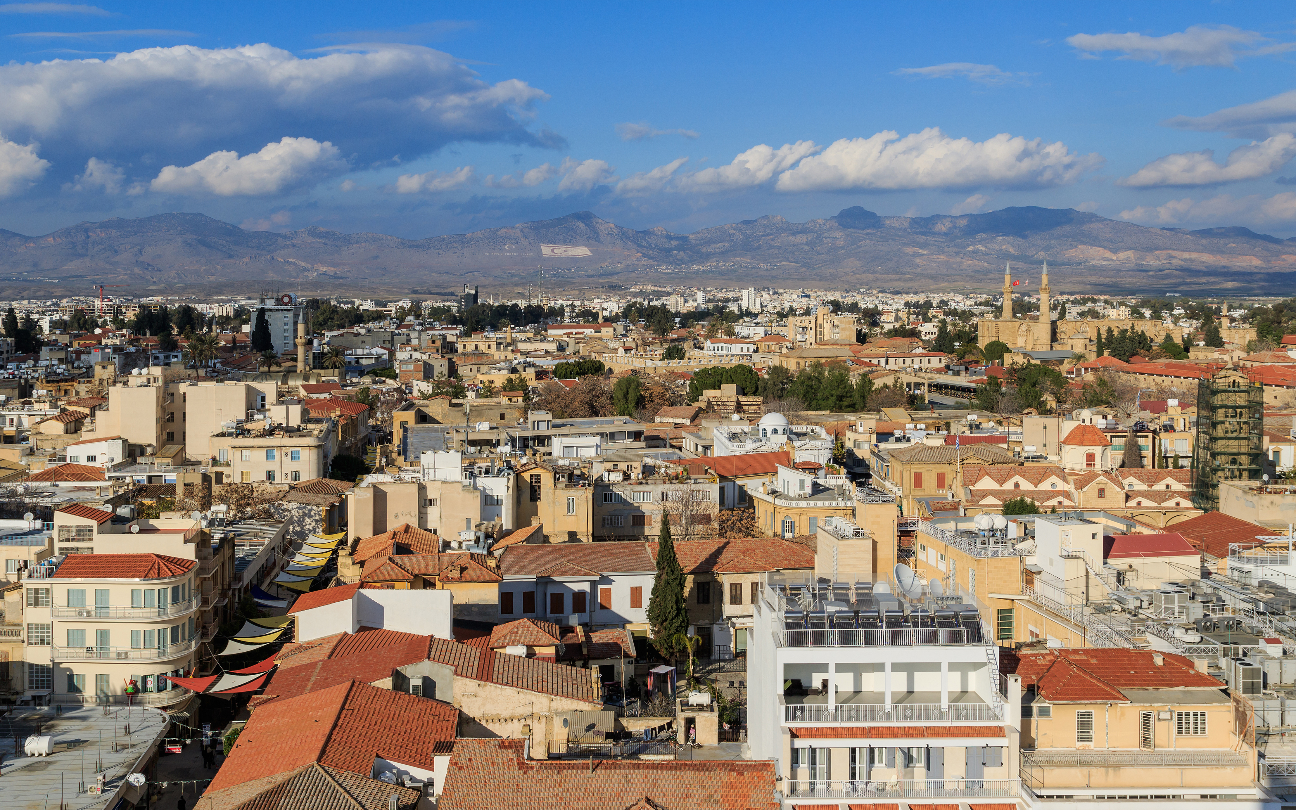 View from Shacolas Tower (Ledra Street Observatory) in Nicosia, Cyprus